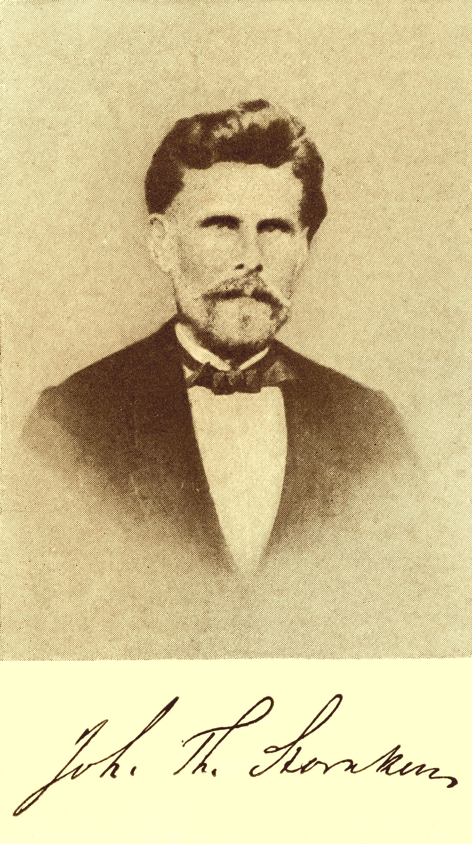 Johan Theodor Storaker (1837-1872)